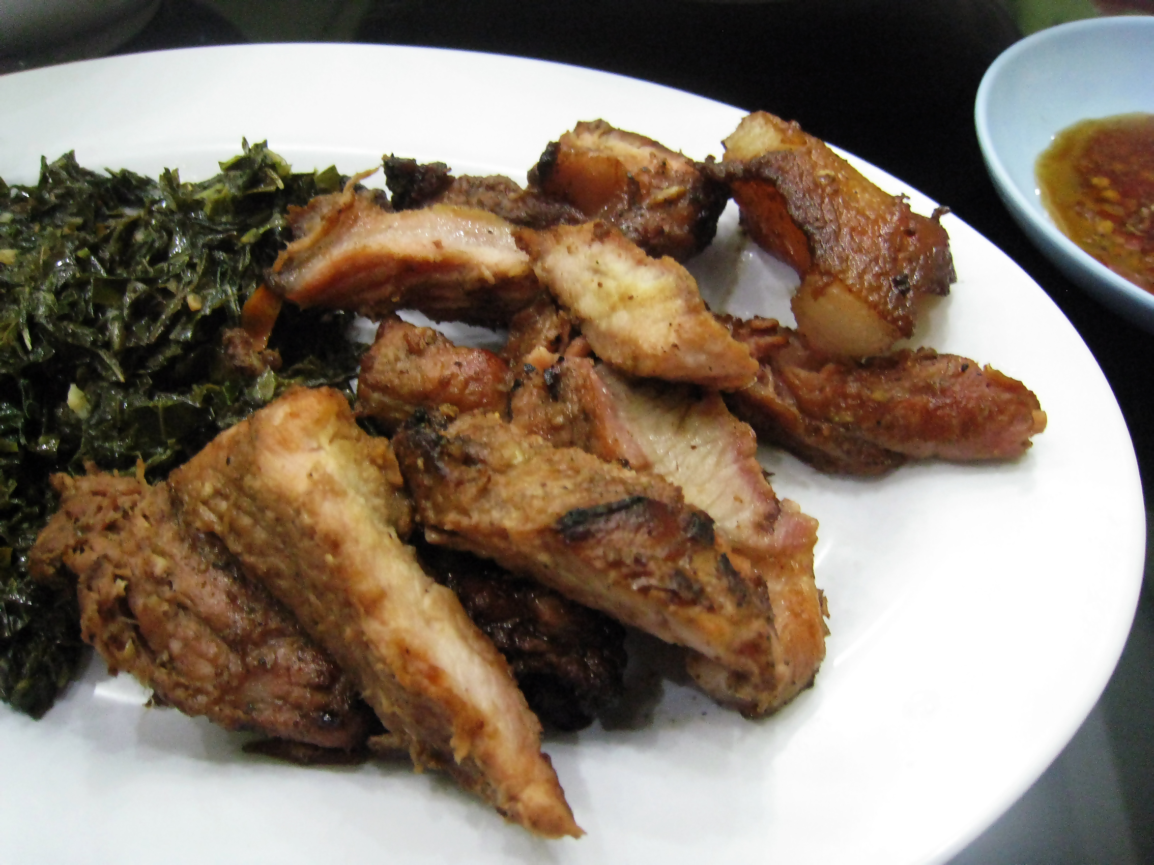 Se'i babi, smoked pork, specialty of Kupang city, East Nusa Tenggara, Indonesia.